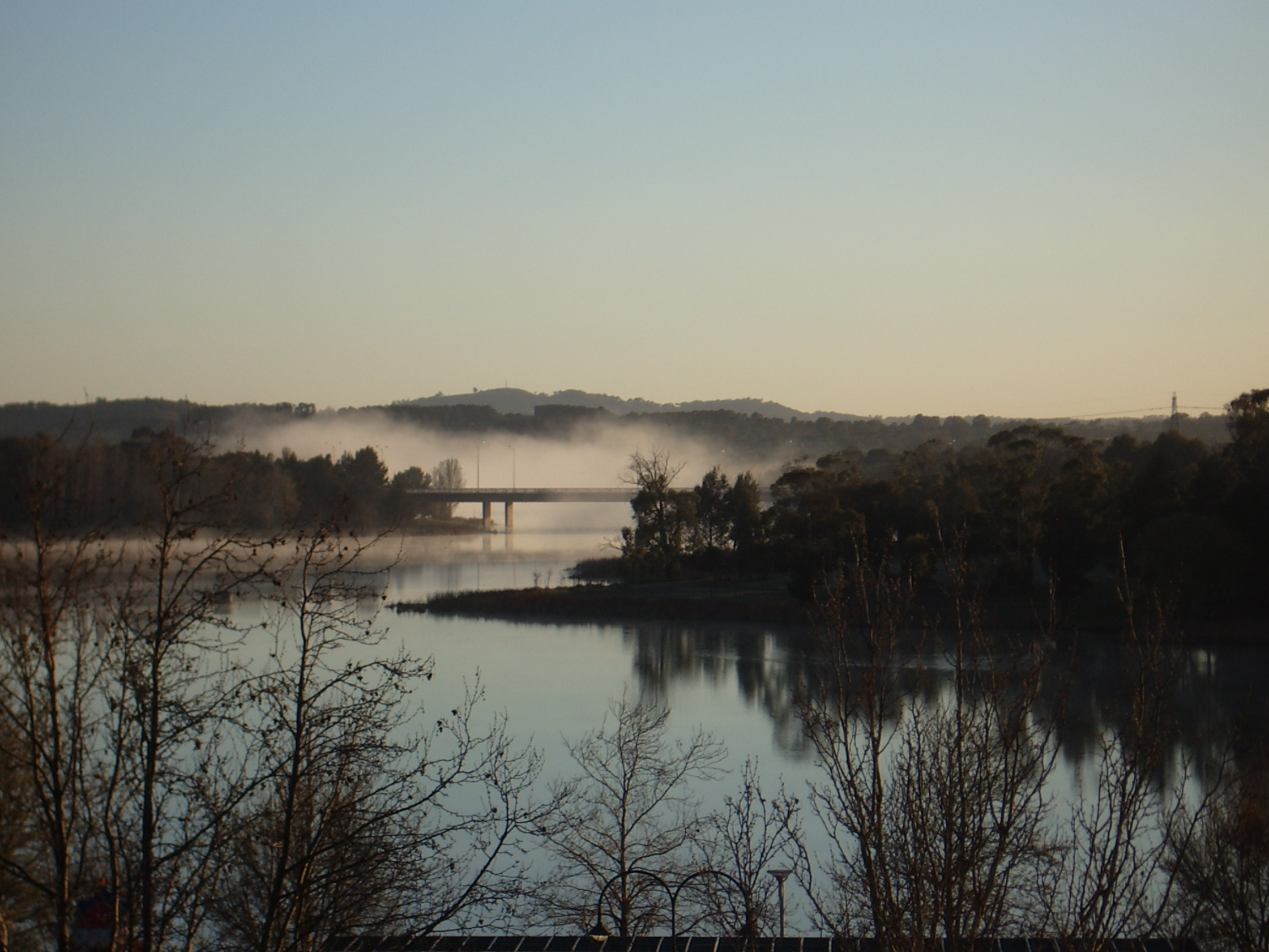 Looking north from the southern shore before sunrise